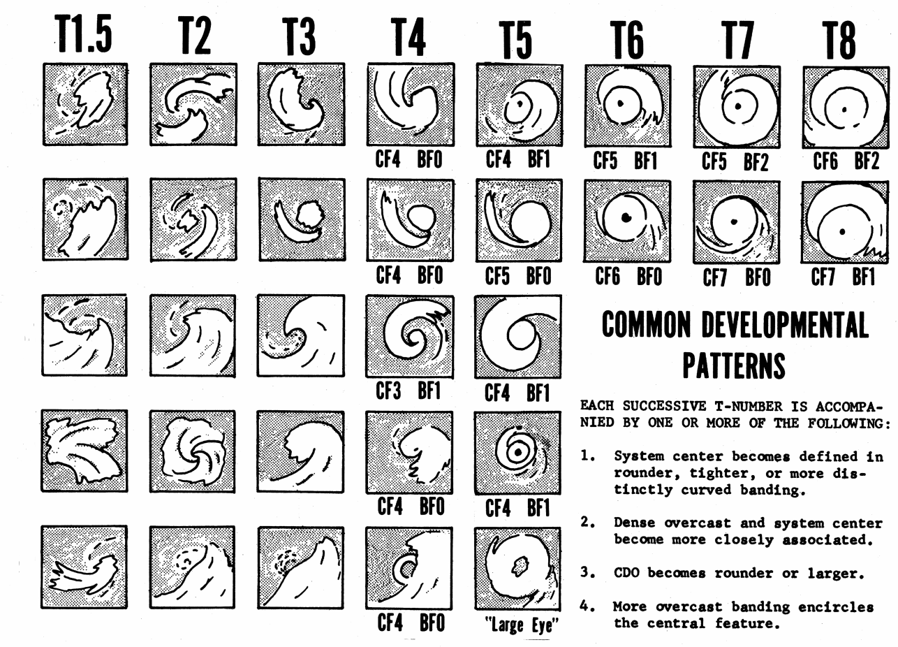 This chart shows common developmental patterns for tropical cyclones, and their intensities per the Dvorak technique